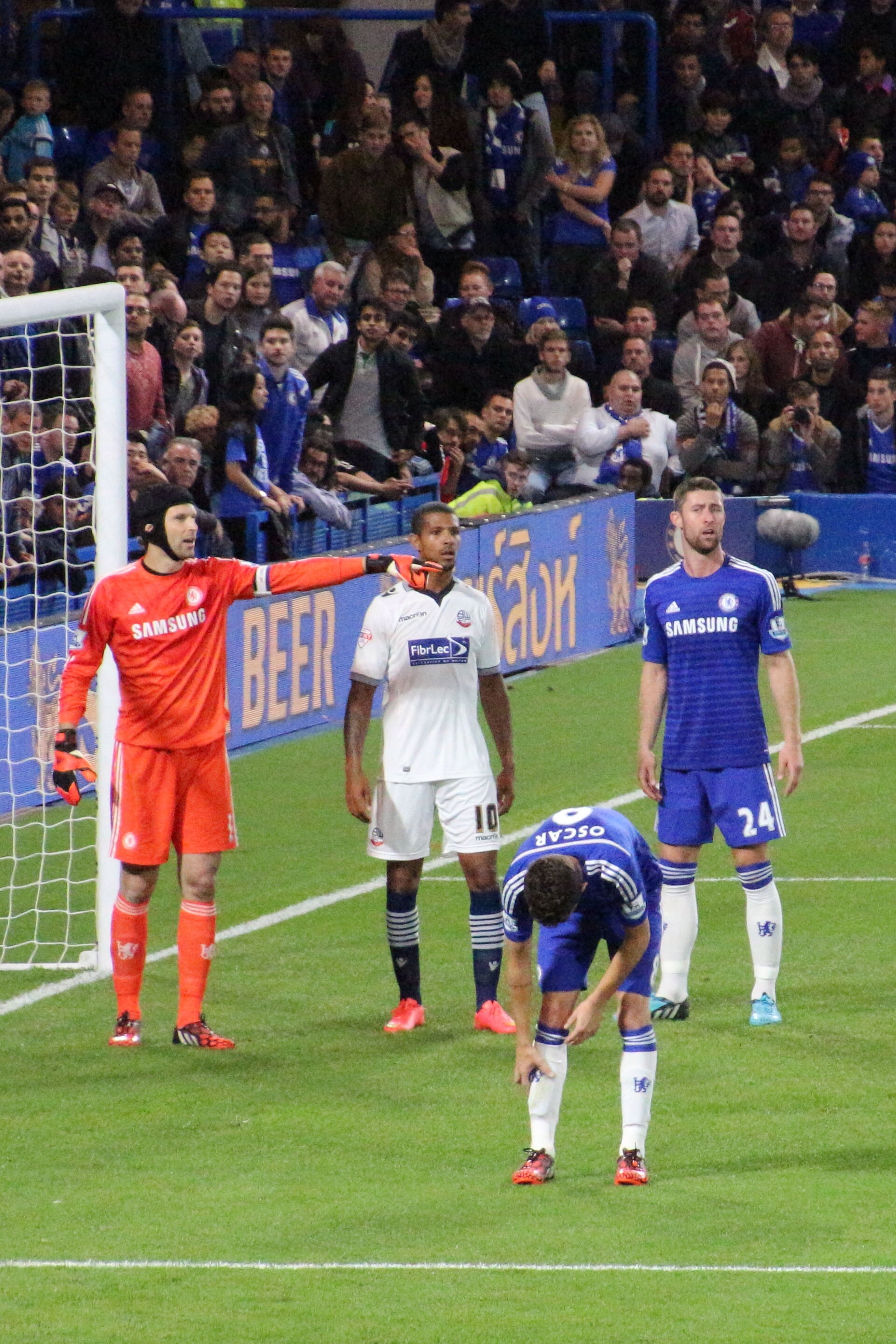 Chelsea 2 Bolton Wanderers 1 Chelsea progress to the next round of the Capital One cup